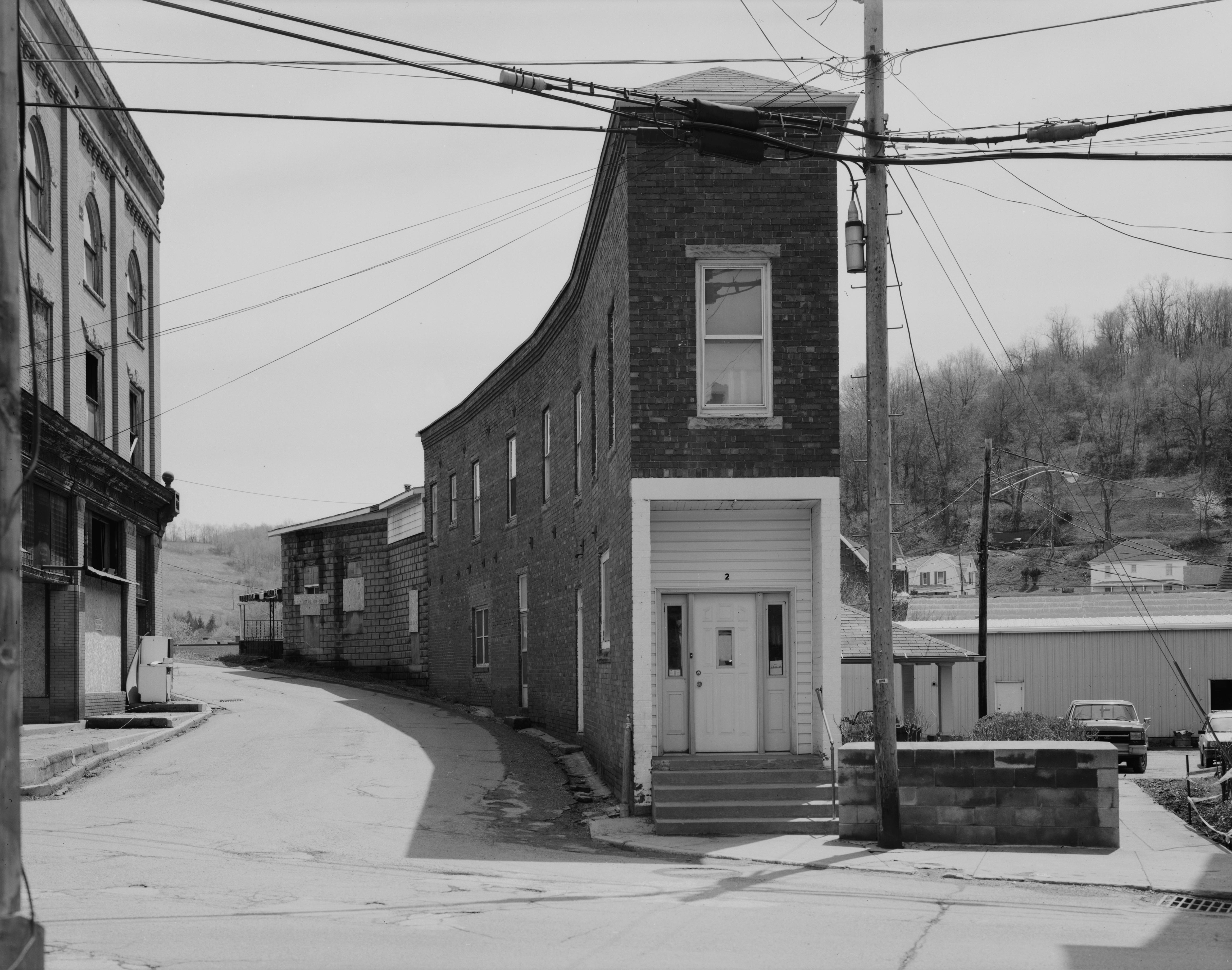 Northern front of the Curved Building, located at 2 Main Street in Cameron, West Virginia, United States. The building to the left is now gone, and the narrow street between the buildings is now U.S. Route 250. Built in 1917, the Curved Building is part of the Cameron Downtown, a historic district that is listed on the National Register of Historic Places.